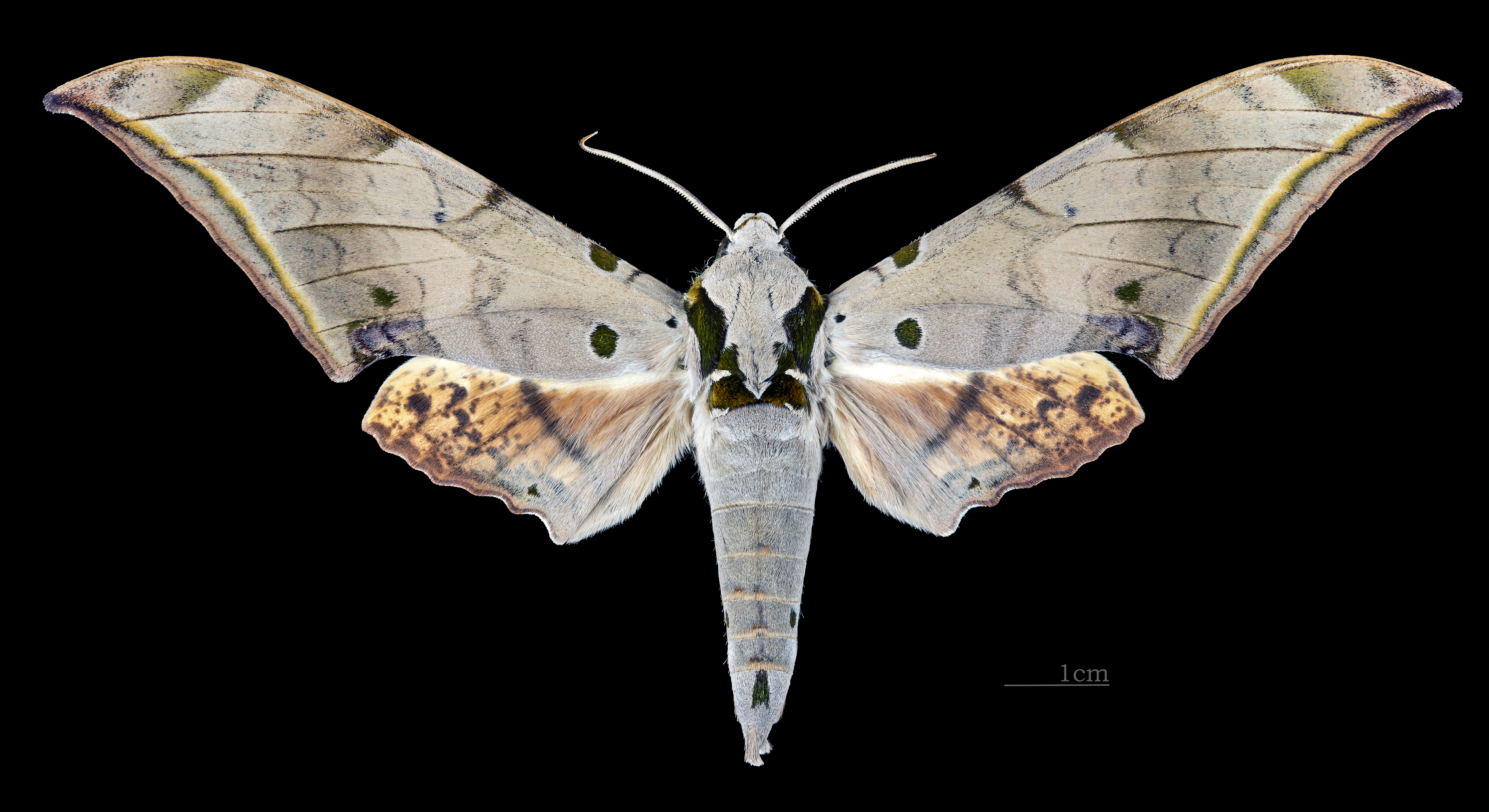 Ambulyx sericeipennis - Dorsal side Collection of the Mathematician Laurent Schwartz